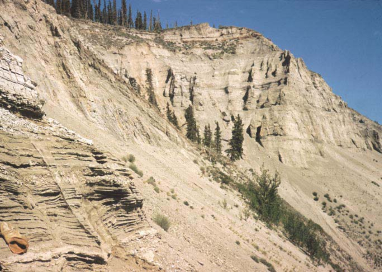 The bluffs near the confluence of the Gakona and Copper Rivers expose nearly 300 ft of the Quaternary lacustrine, alluvial, and glacial deposits that fill the Copper River Basin. Most of the section seen in this view consists of finely laminated to indistinctly bedded sand, silt, and clay, with or without coarser material, that was deposited in glacial Lake Atna. A few beds contain organic material that has been dated by radiocarbon-age techniques. Outcrops in the lower left foreground (glove for scale) consist of alternating thin beds of coarser and fi ner grained material. The fractured, lighter colored beds above them are varved silt and clay. Beyond the scattered trees, the middle part of the section includes interbedded diamicton, silt, and sand. Some of the poorly sorted diamicton beds were probably deposited by slumping of deposits on the bottom of the lake, but other diamicton beds could represent the advance of glaciers into the lake. The upper 30 ft of the bluff consists of windblown sand and silt, some of which still is accumulating today. The entire section below the windblown material was deposited during the last major glaciation in Alaska between about 58,000 and 9,400 years ago, as dated here, and indicates rapid erosion of the mountains that surround the Copper River Basin.